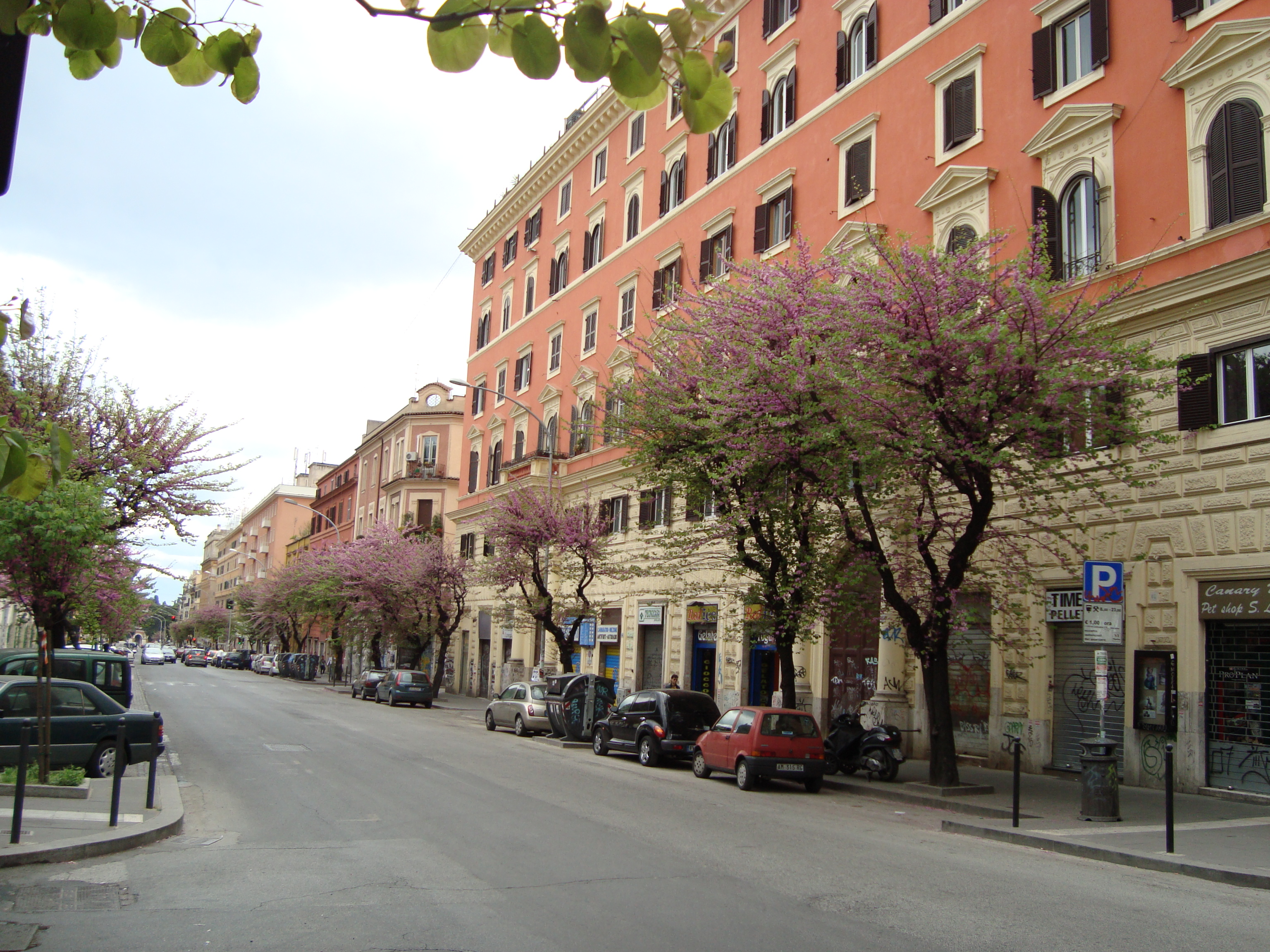 Via Tiburtina in Rome in the Tiburtino quatiere, Italy